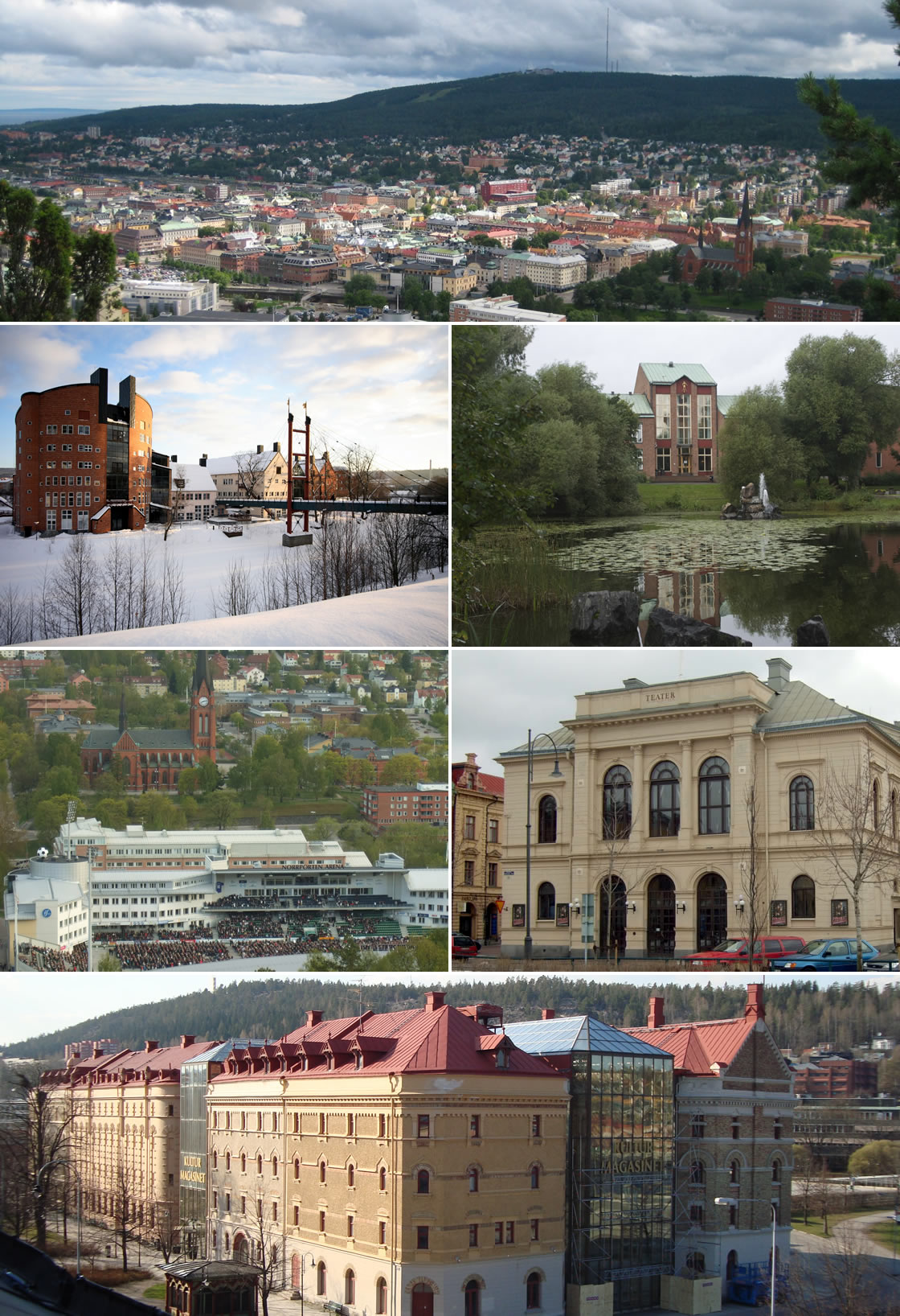 Montage for Sundsvall